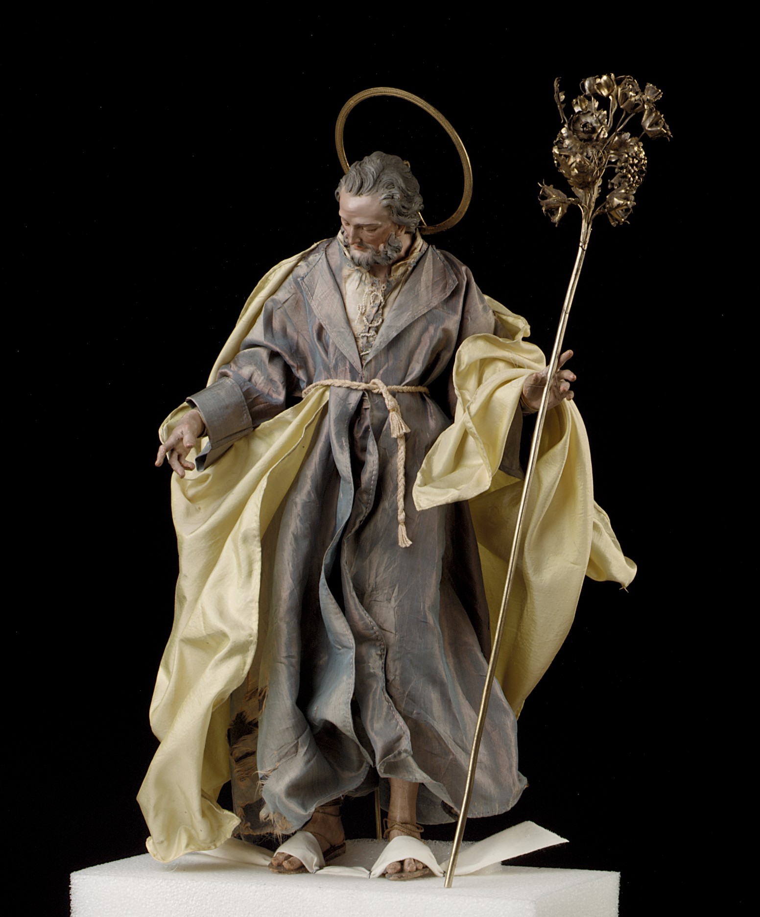 Italian, Naples; Crèche figure; Crèche